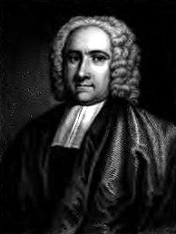 Portrait of Benjamin Grosvenor (1676–1758), English dissenting minister.